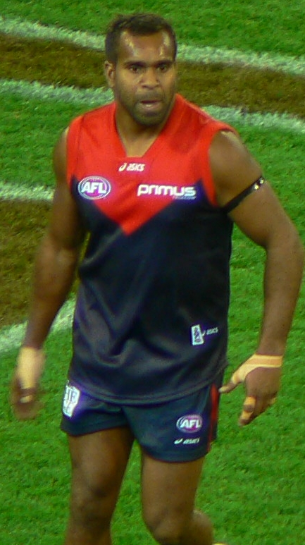 Byron Pickett, Australian rules footballer. Playing for Melbourne Football Club.